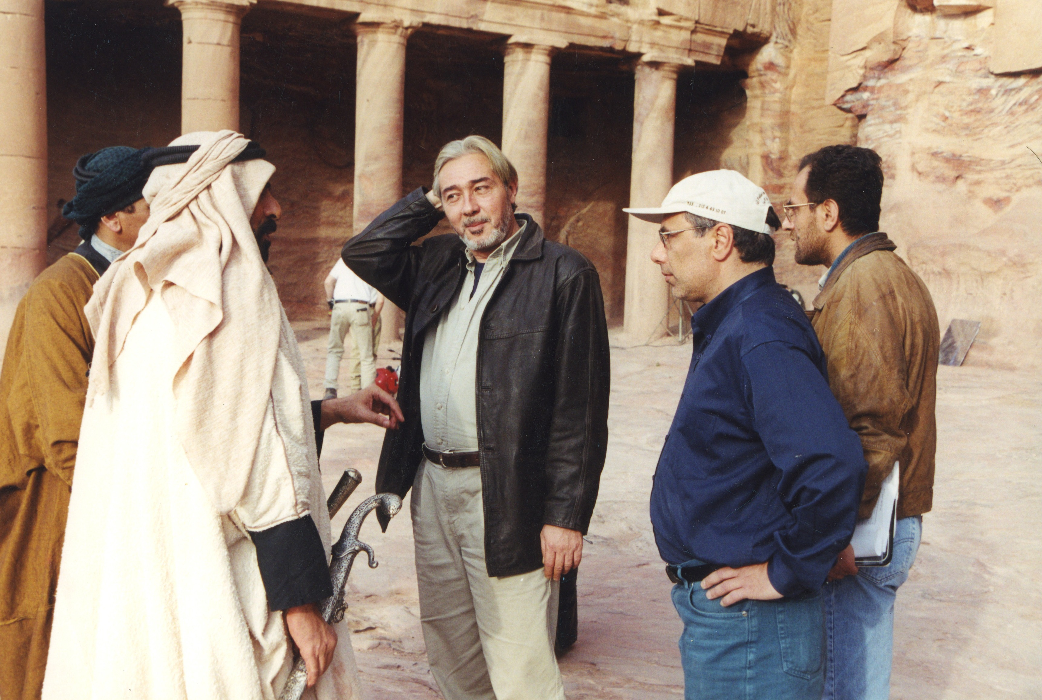 Najdat Anzour Syrian Director with, and Syrian Actor Raheed Assaf in the Lead Role of Bashar in the Drama series "The Last Cavalier" on location in Petra Jordan